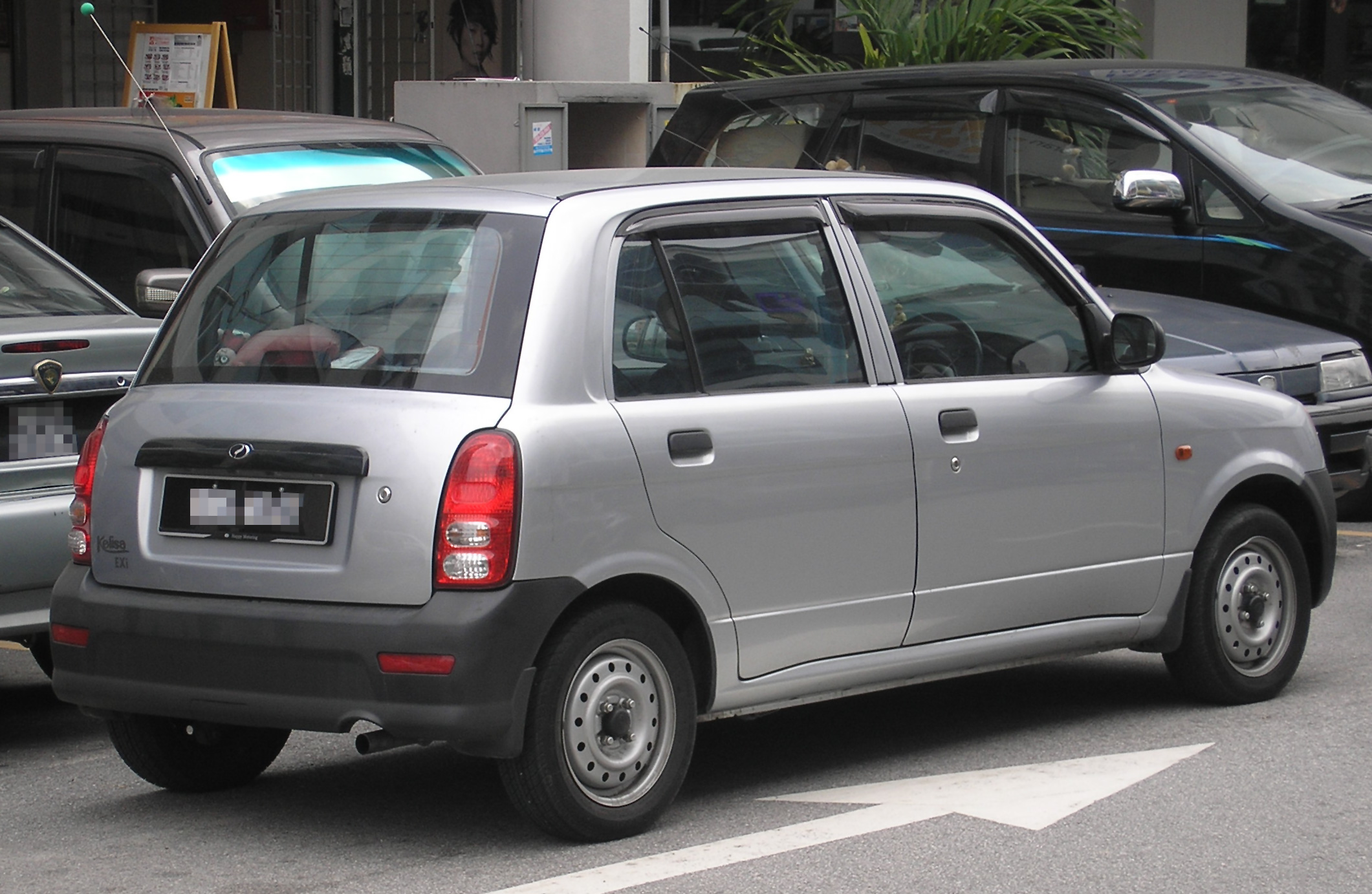 Rear-side shot of a first facelifted but basic Perodua Kelisa (similiar to one Jeremy Clarkson blew up in Heaven and Hell (2005)), in Cheras, Kuala Lumpur, Malaysia.